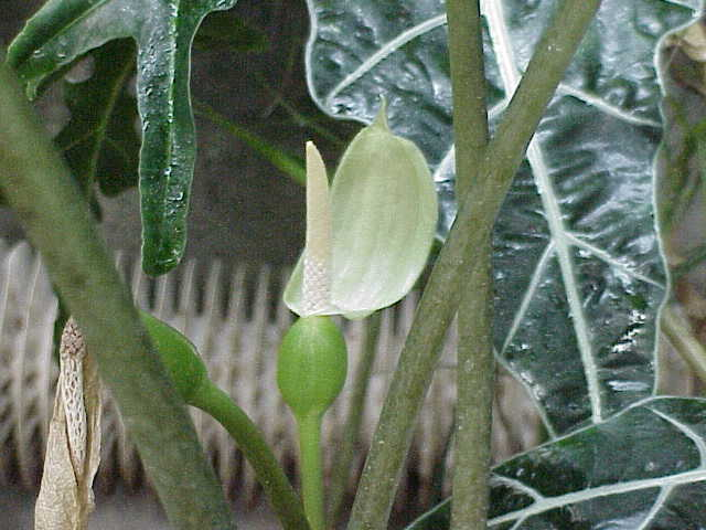 Species: Alocasia sanderiana Family: Araceae Image No. 3